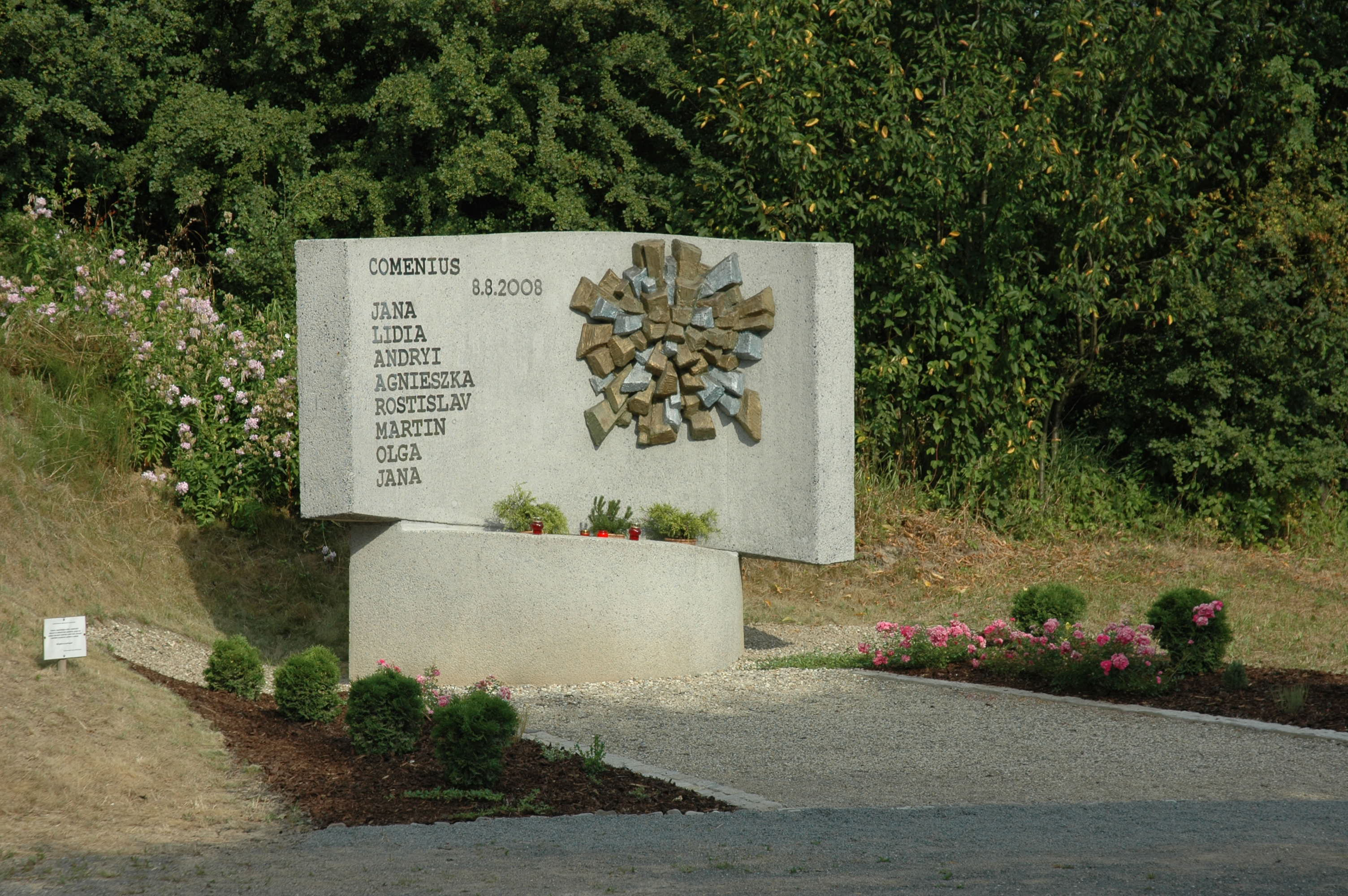 Studénka train accident memorial, Studénka, Czech Republic